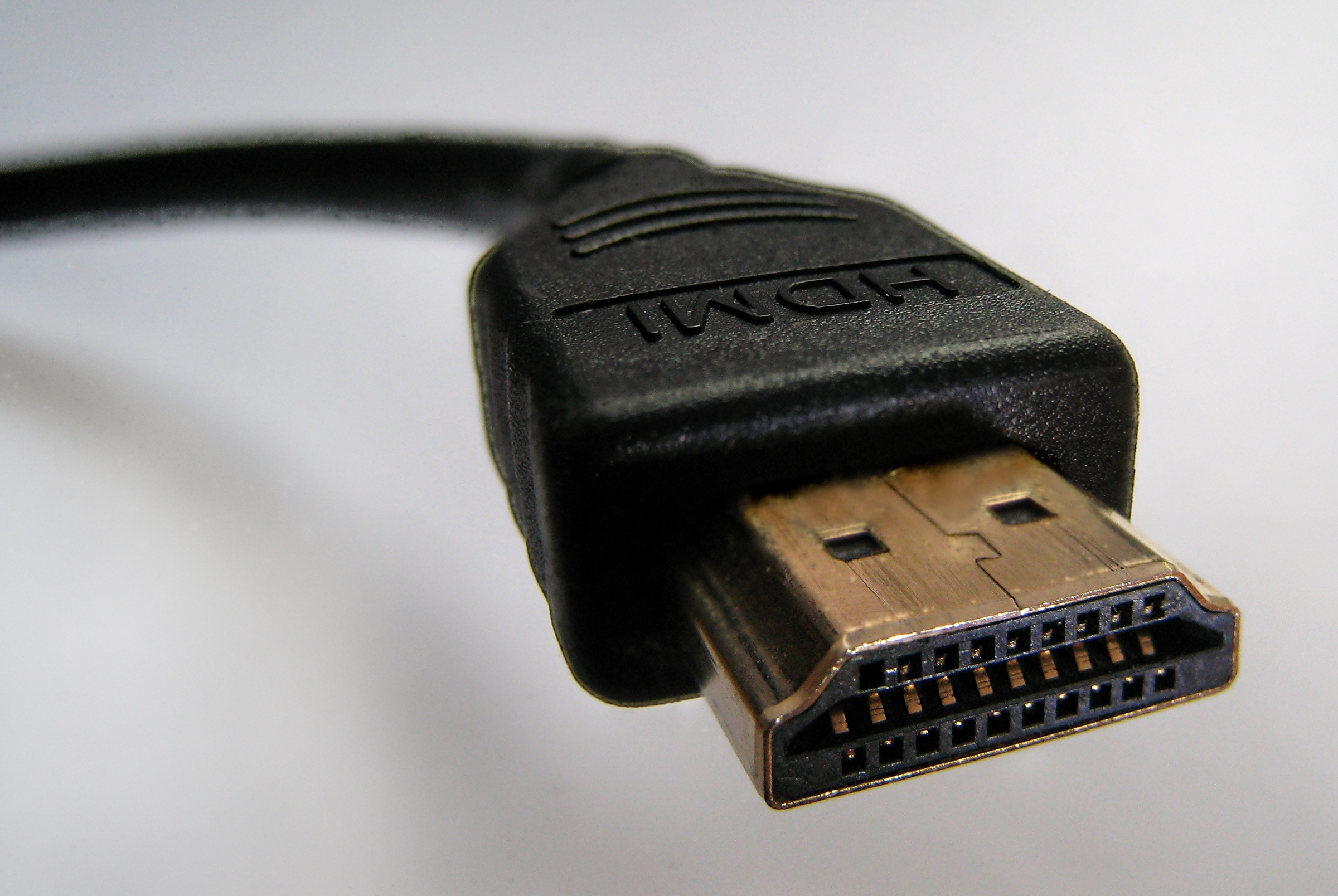 A male HDMI connector